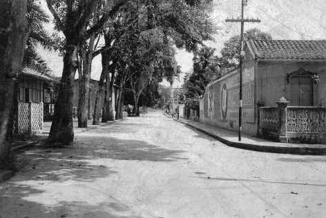 Los Teques in the 1940s